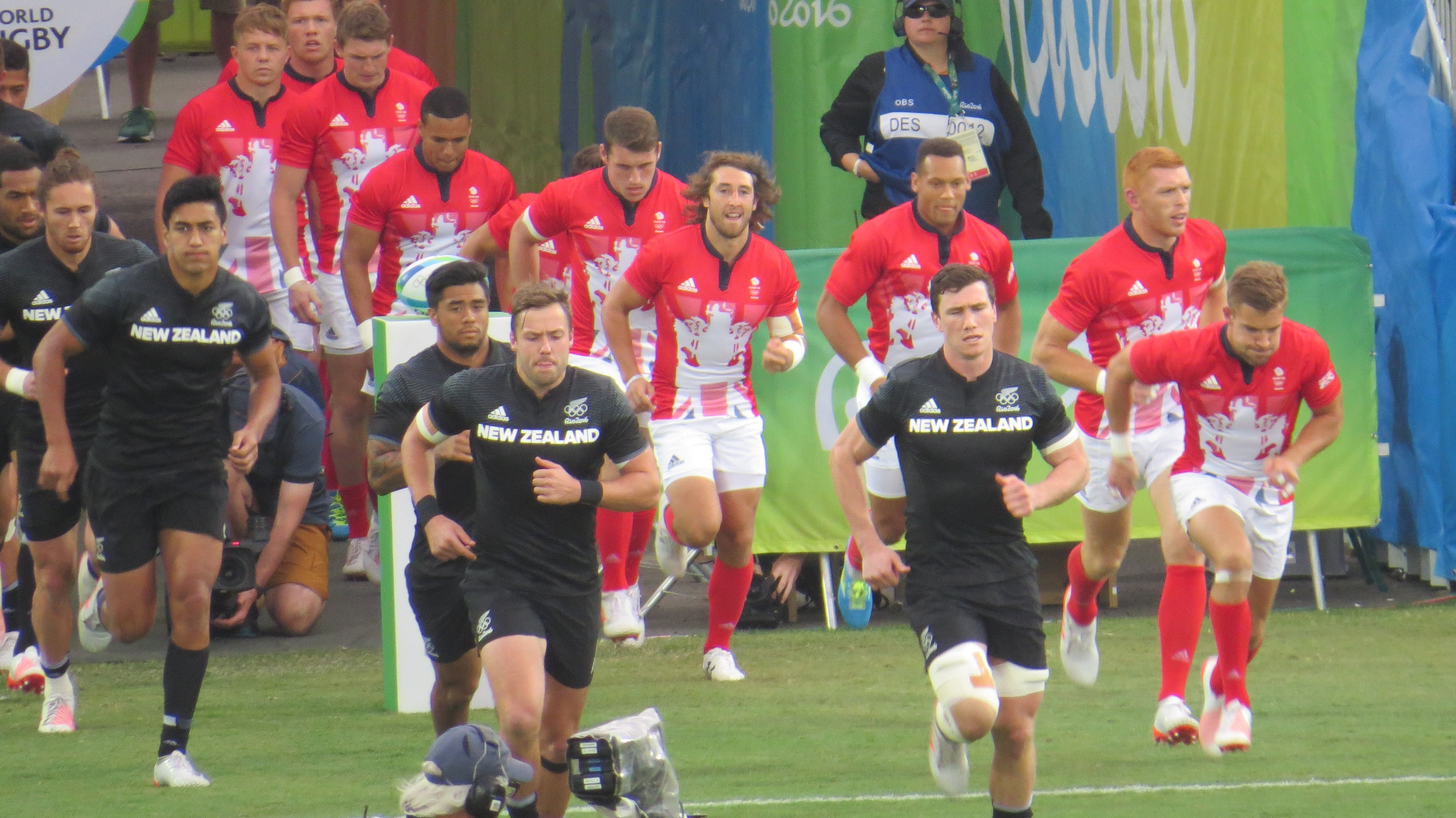 Rio 2016. Rugby 156